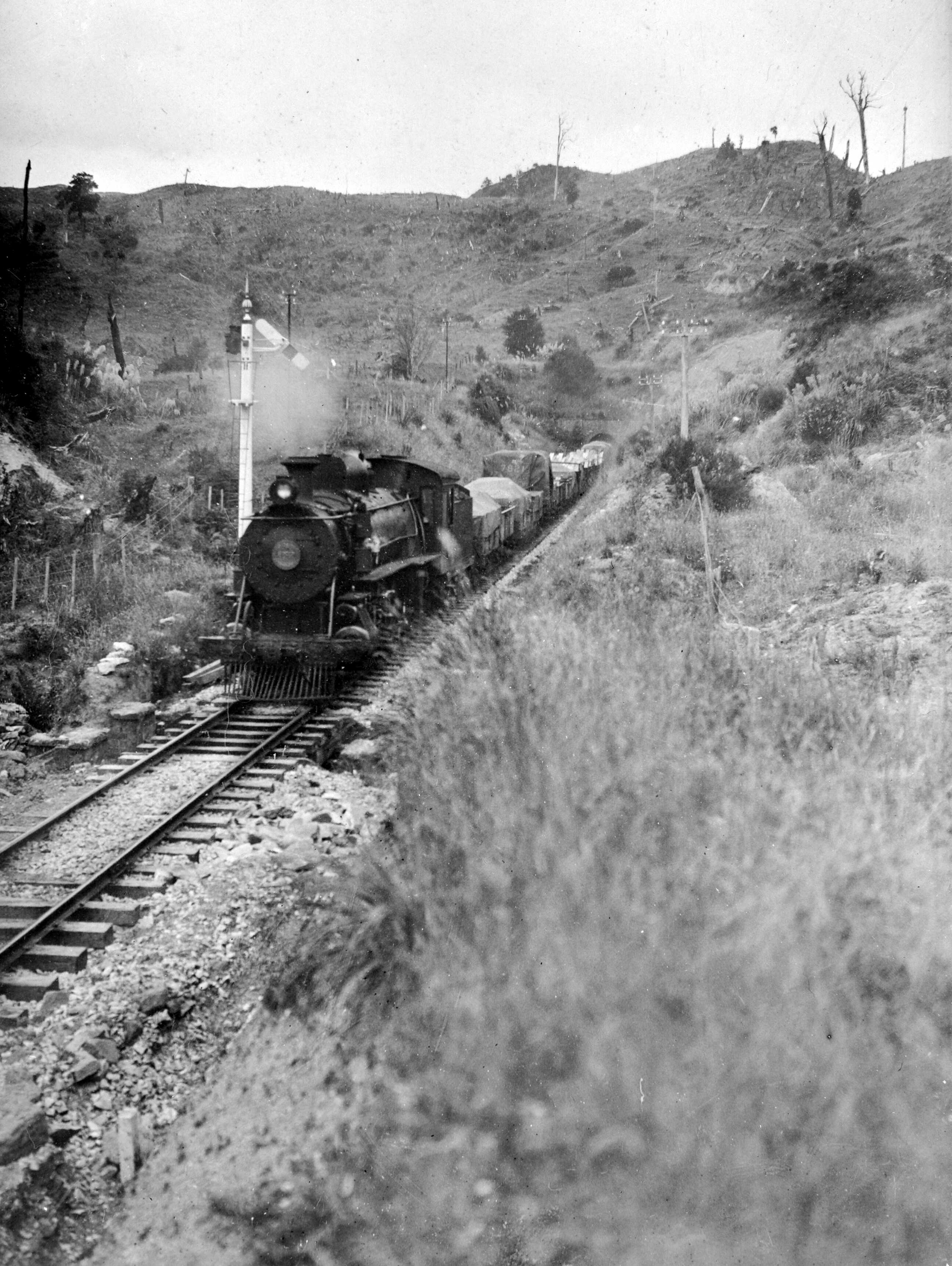 Train coming out of the Porootarao tunnel (78 chains long), circa 1910. This image is a film negative taken from an original print in Godber album, Vol 109, p 35 (PA1-q-102). Photograph taken by Albert Percy Godber.